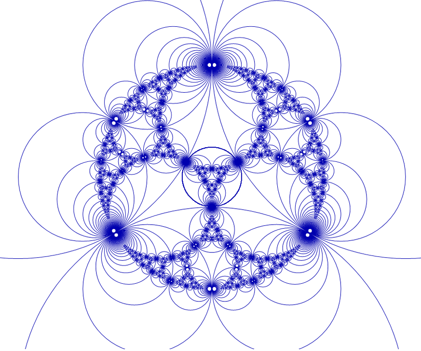 This is the regular {3,3,∞} honeycomb in hyperbolic 3-space. This renders the intersection of the {3,3,∞} with the plane-at-infinity, in the Poincare half-space model of H3.